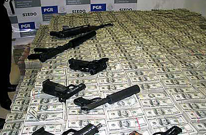 $205 Million drug money seized by the Mexican Police and the Drug Enforcement Administration in Mexico city — largest single drug cash seizure in history (2007)